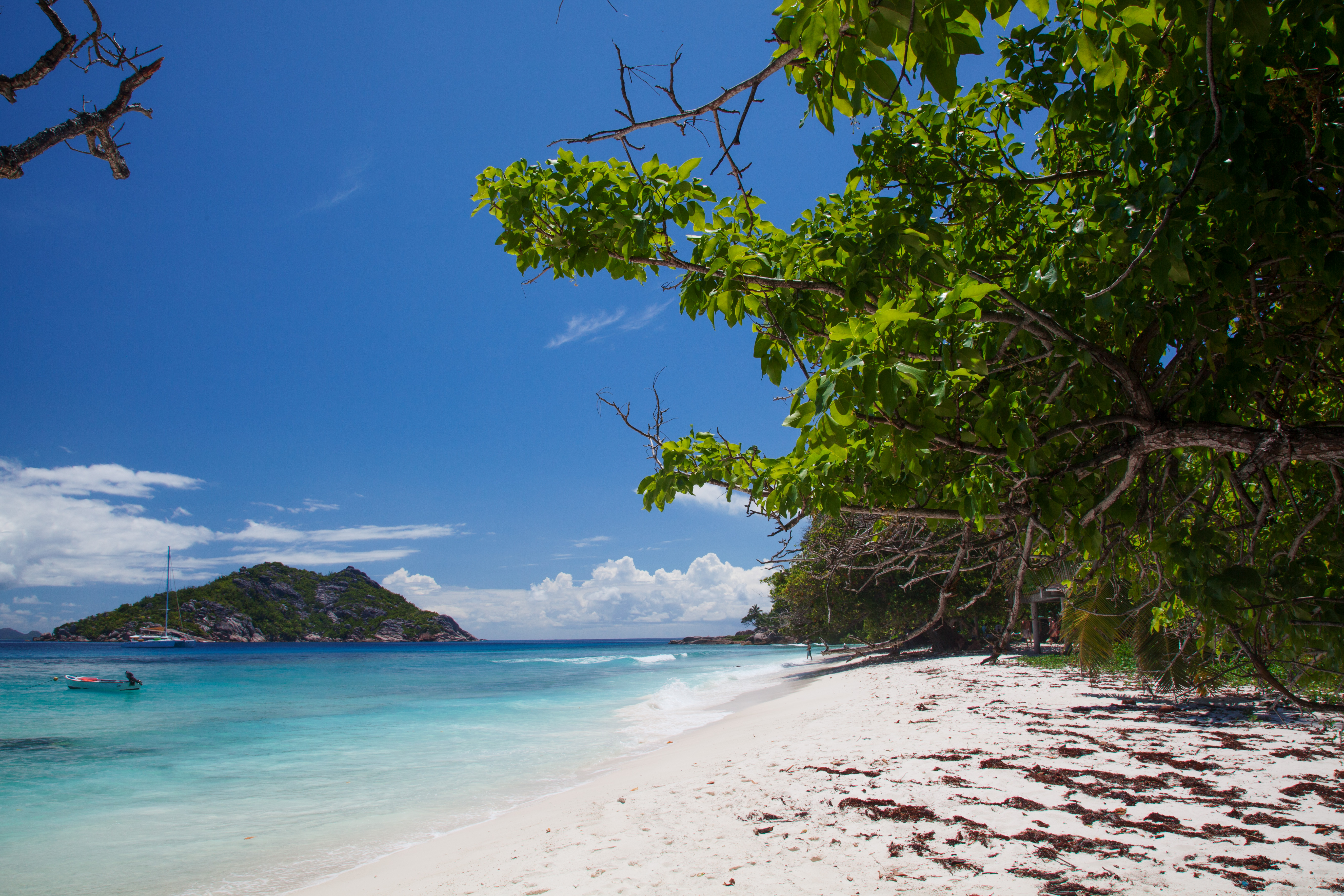 Petite Soeur viewed from Grande Soeur, a small island near La Digue, Seychelles